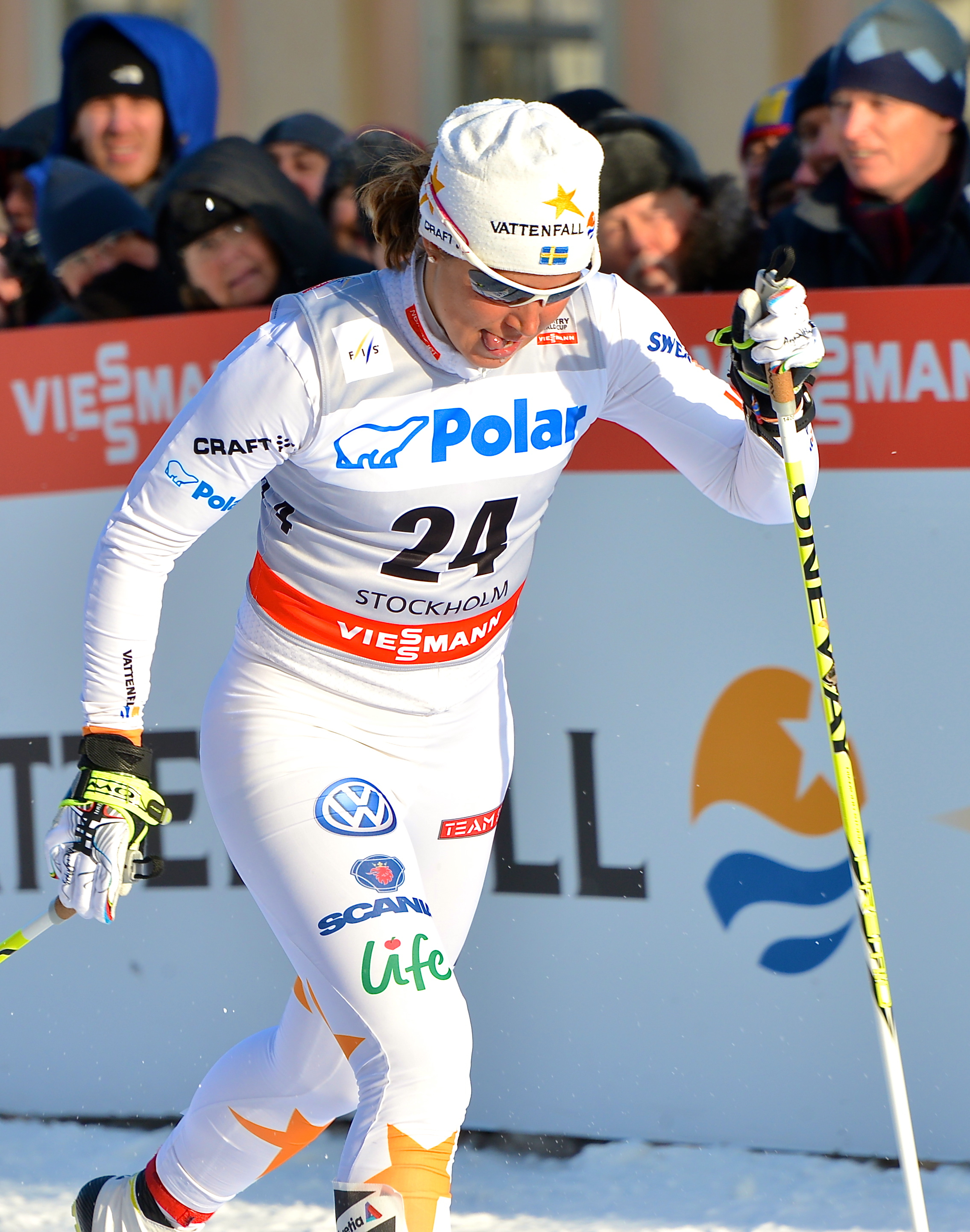 Anna Haag at the Royal Palace Sprint, part of the FIS World Cup 2012/2013, in Stockholm on March 20, 2013.